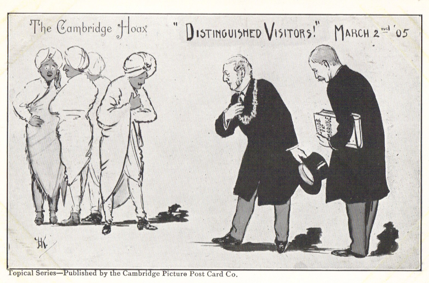 Postcard of the Cambridge Hoax, which featured Horace de Vere Cole